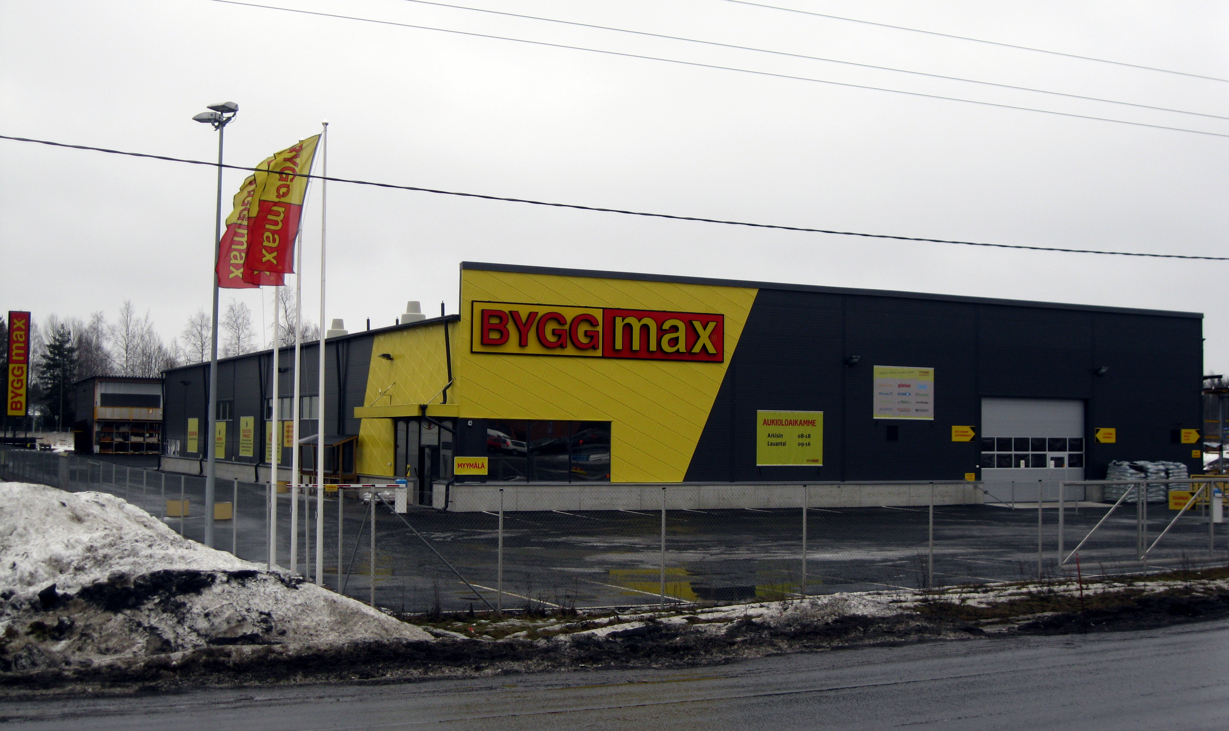 Byggmax in Seinäjoki.